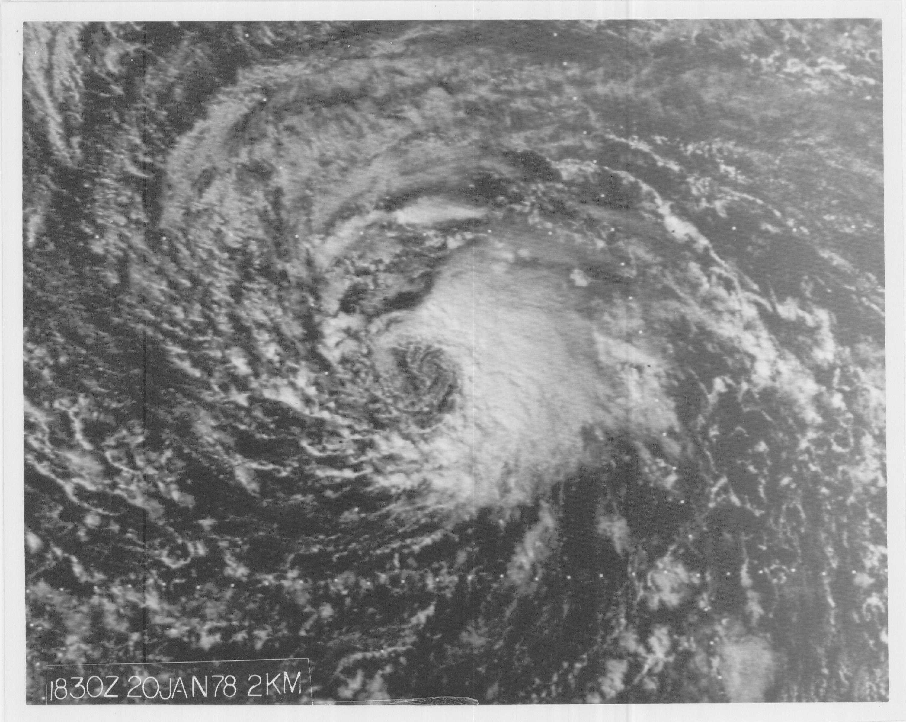 Satellite imagery of rare Subtropical Storm One on January 20, 1978 near peak intensity